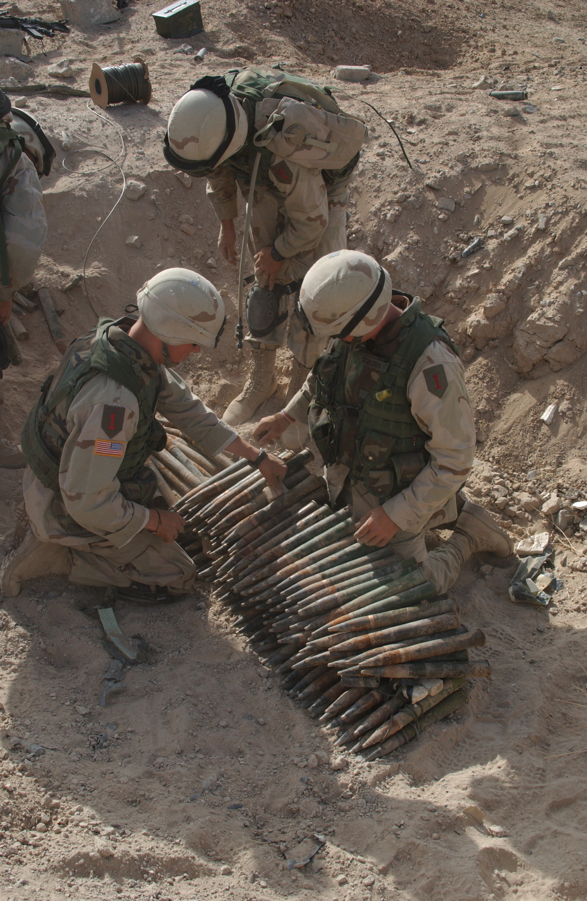 Soldiers from Alpha Company, 9th Engineer Battalion, place C-4 explosives onto 37mm anti-aircraft rounds to be destroyed near the city of Bayji, Iraq, on June 20, 2004. Soldiers are conducting unexploded ordnance clearance to prevent injuries or deaths to the Coalition Forces and civilian personnel and prevent their use as improvised explosive devices.